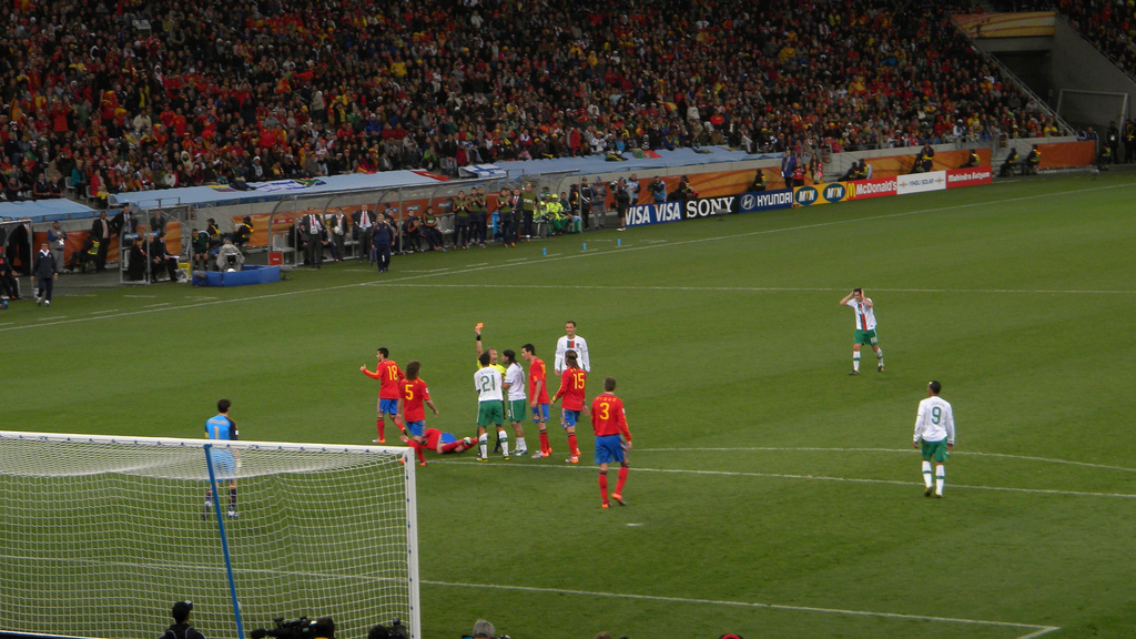 Portugal tried everything to get a goal in the final minutes and all they were given was a red card.